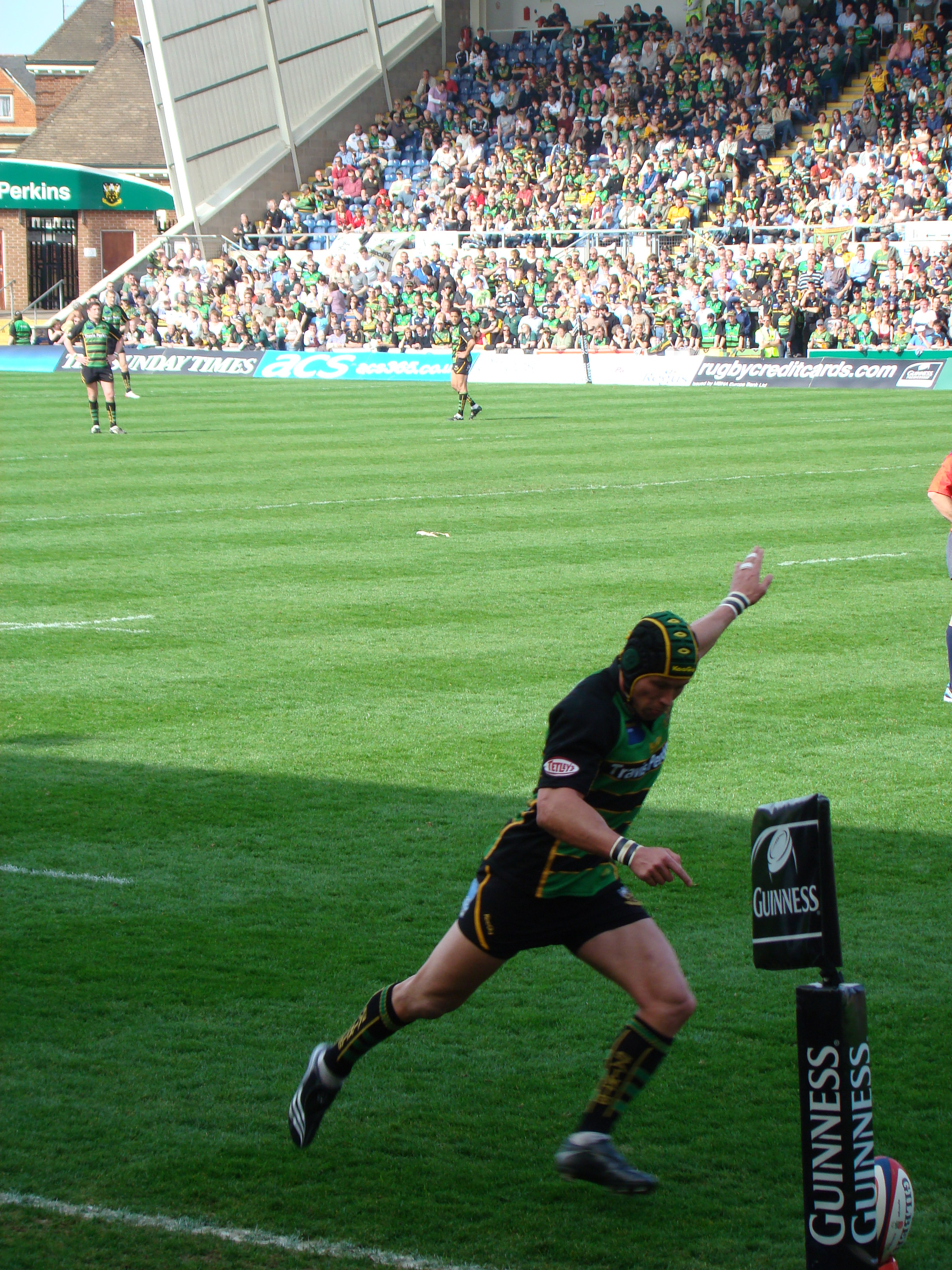 Bruce Reihana just before kicking for Northampton Saints